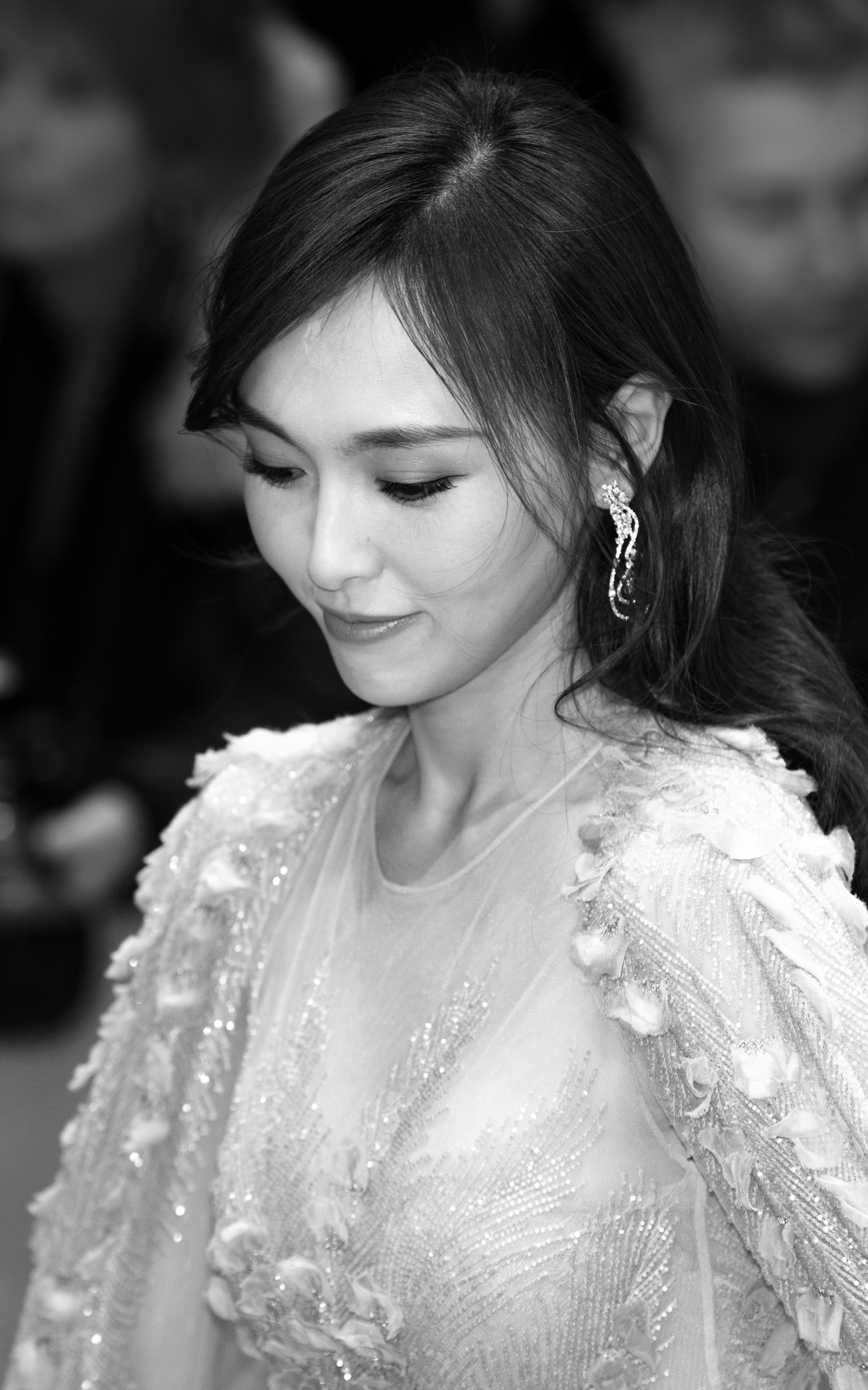 Tiffany Tang on the red carpet of the Berlinale 2017 opening film